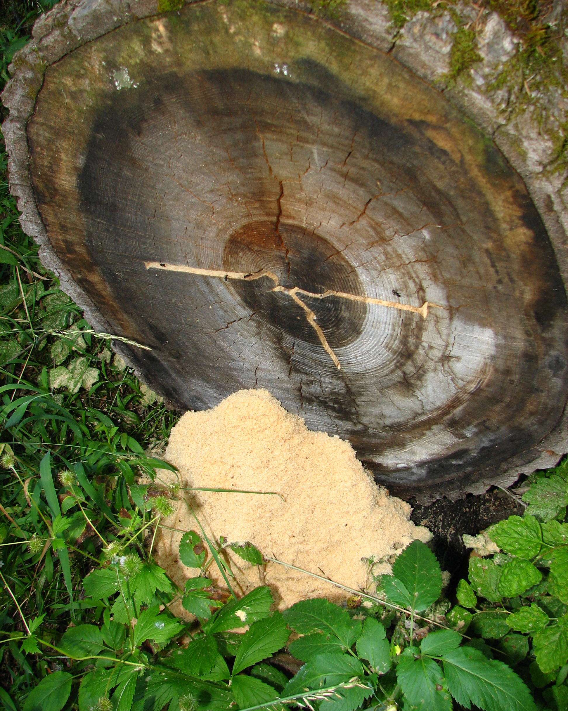 Midden pile of refuse wood "sawdust" outside a carpenter ant nest in the North Fork Umatilla Wilderness, Umatilla National Forest, Oregon, United States.